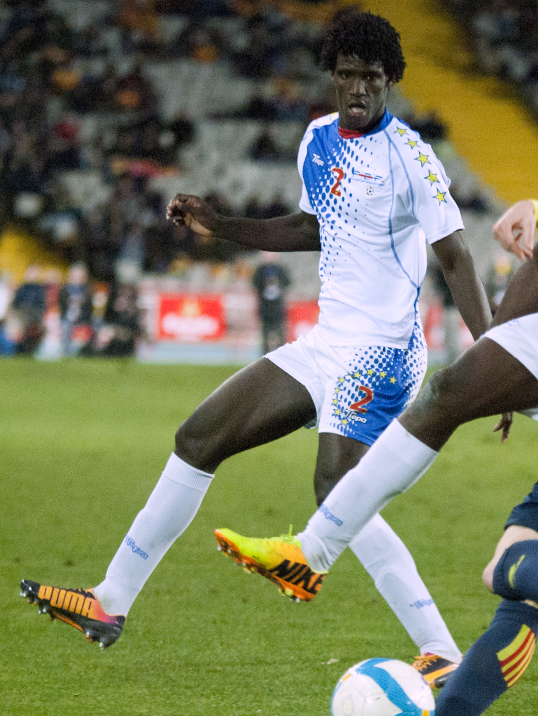 Cape Verdean international football player Péricles Pereira 'Pecks' during friendly match Catalonia vs. Cape Verde